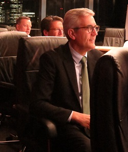 Ulrich Spiesshofer in the ABB Group boardroom, Zurich